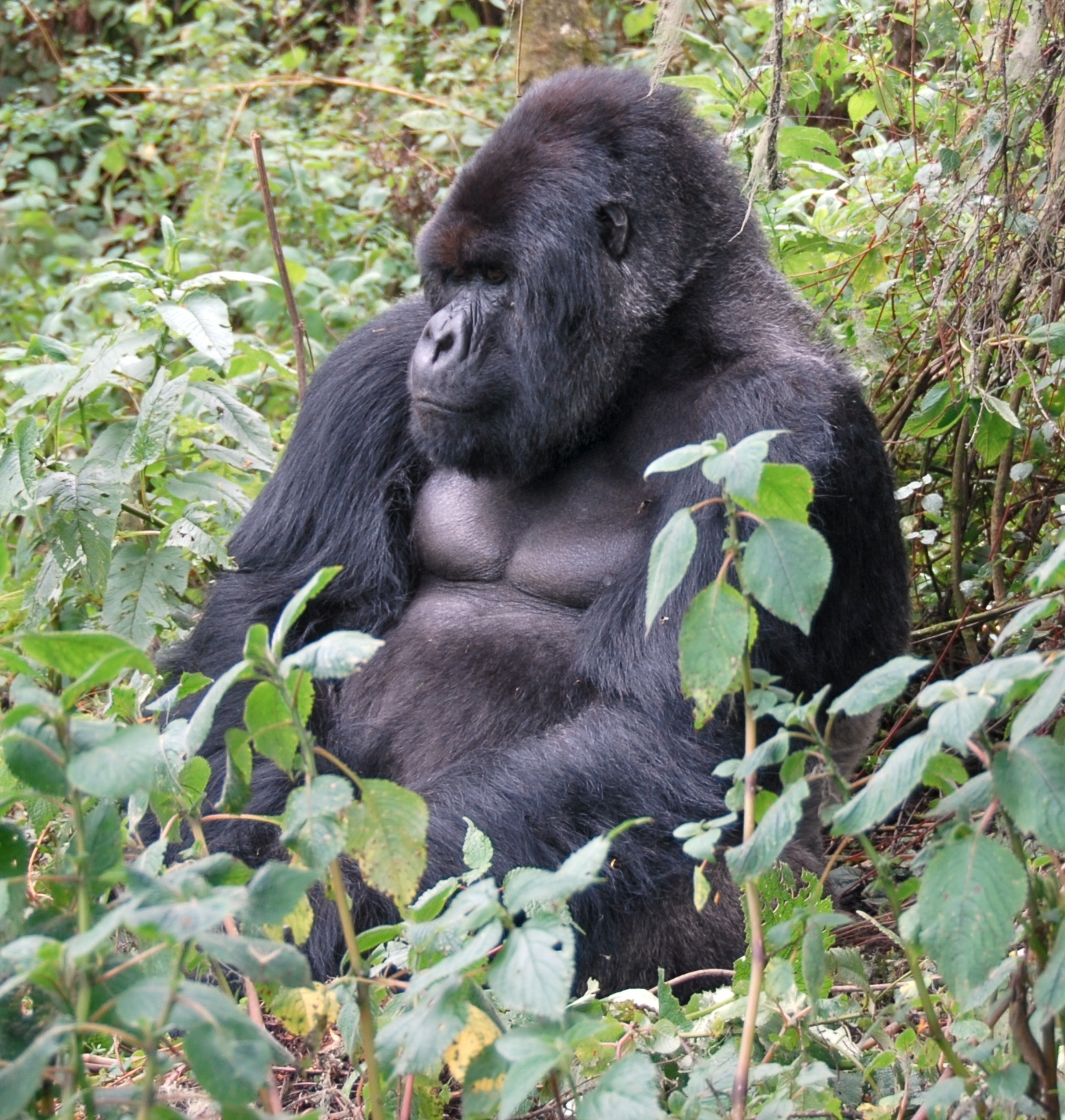 Adult male Mountain gorilla